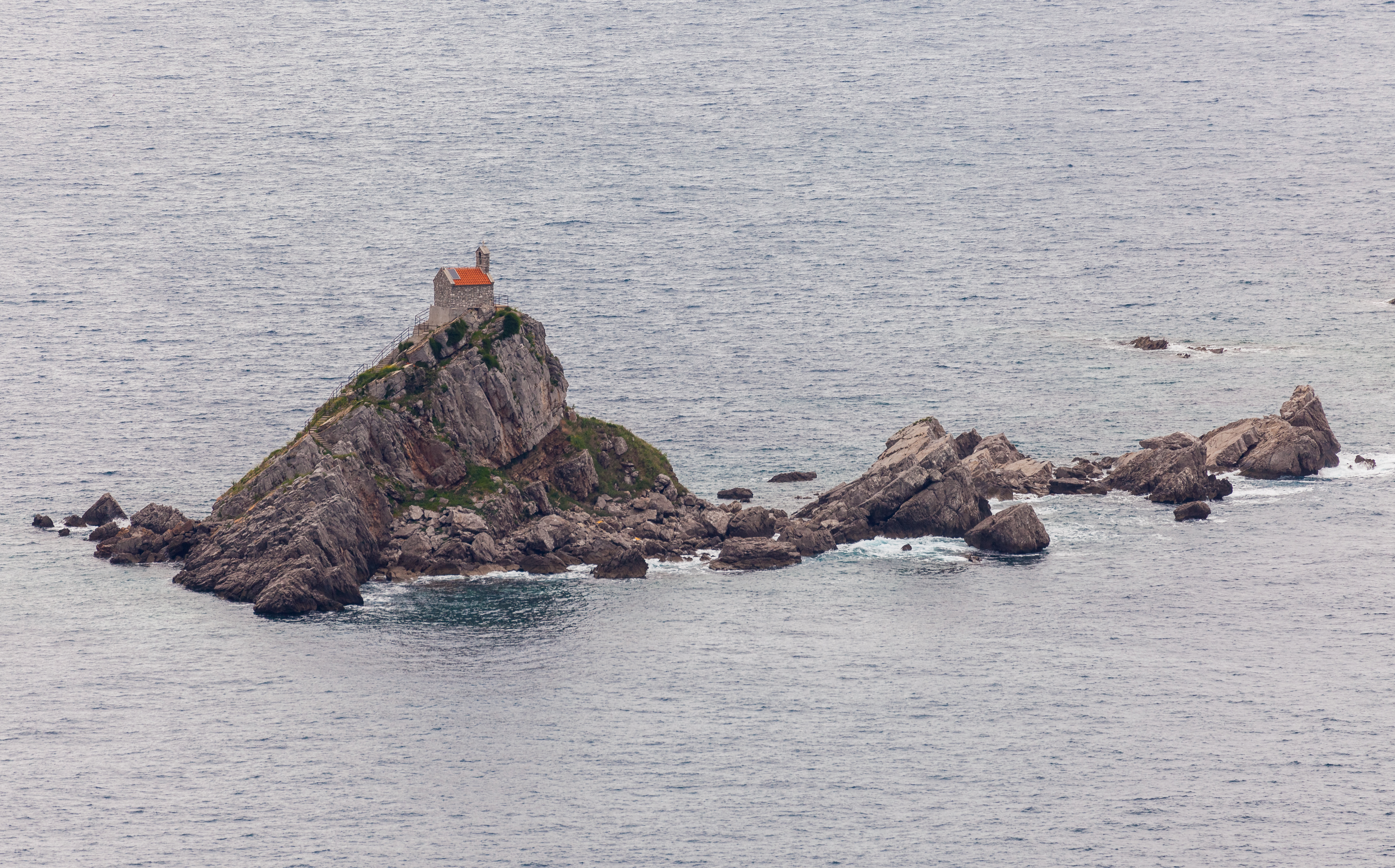 St Nedelya church, Petrovac, Montenegro